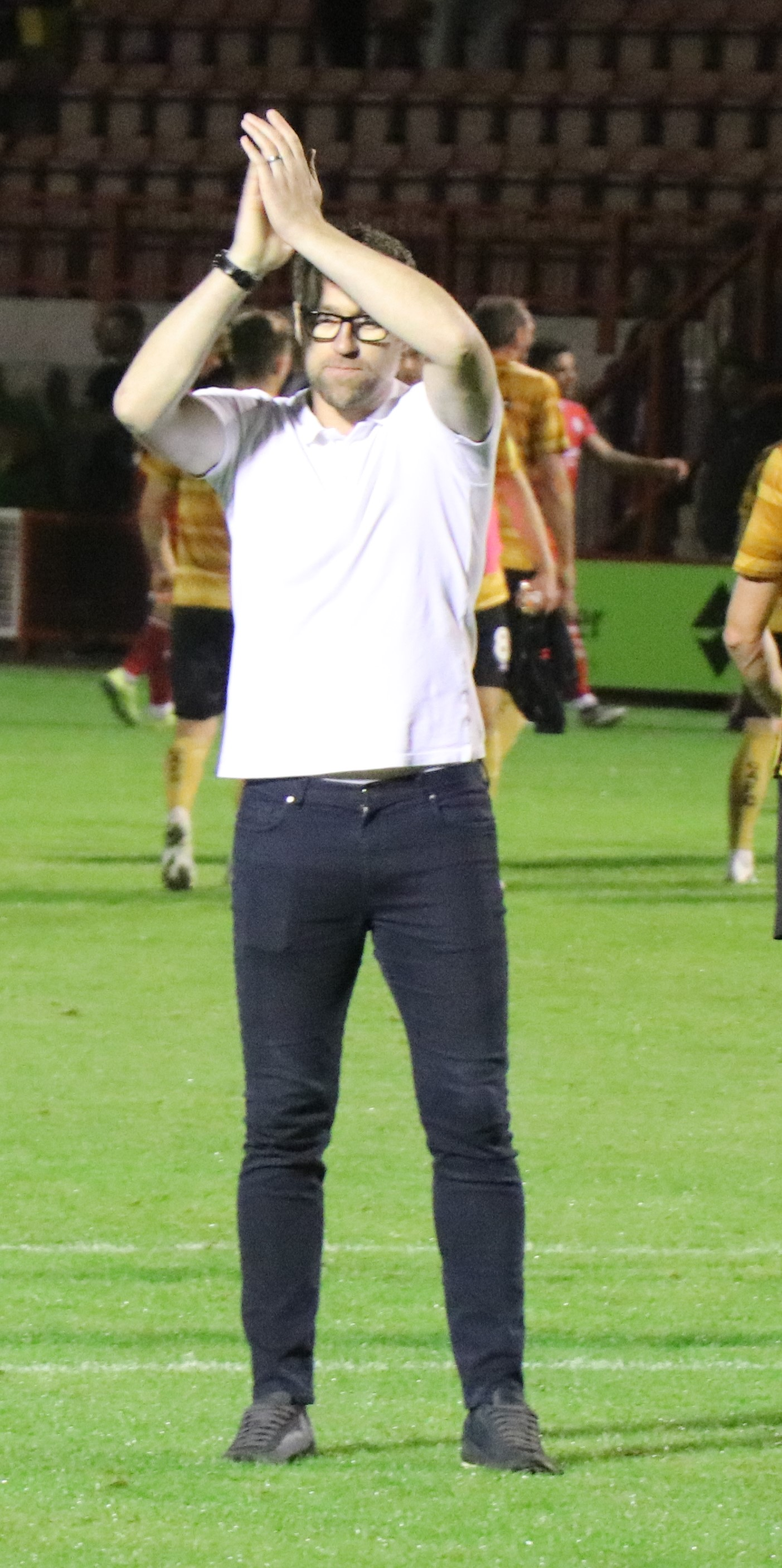 Crewe Alexandra FC manager David Artell at Crawley Town